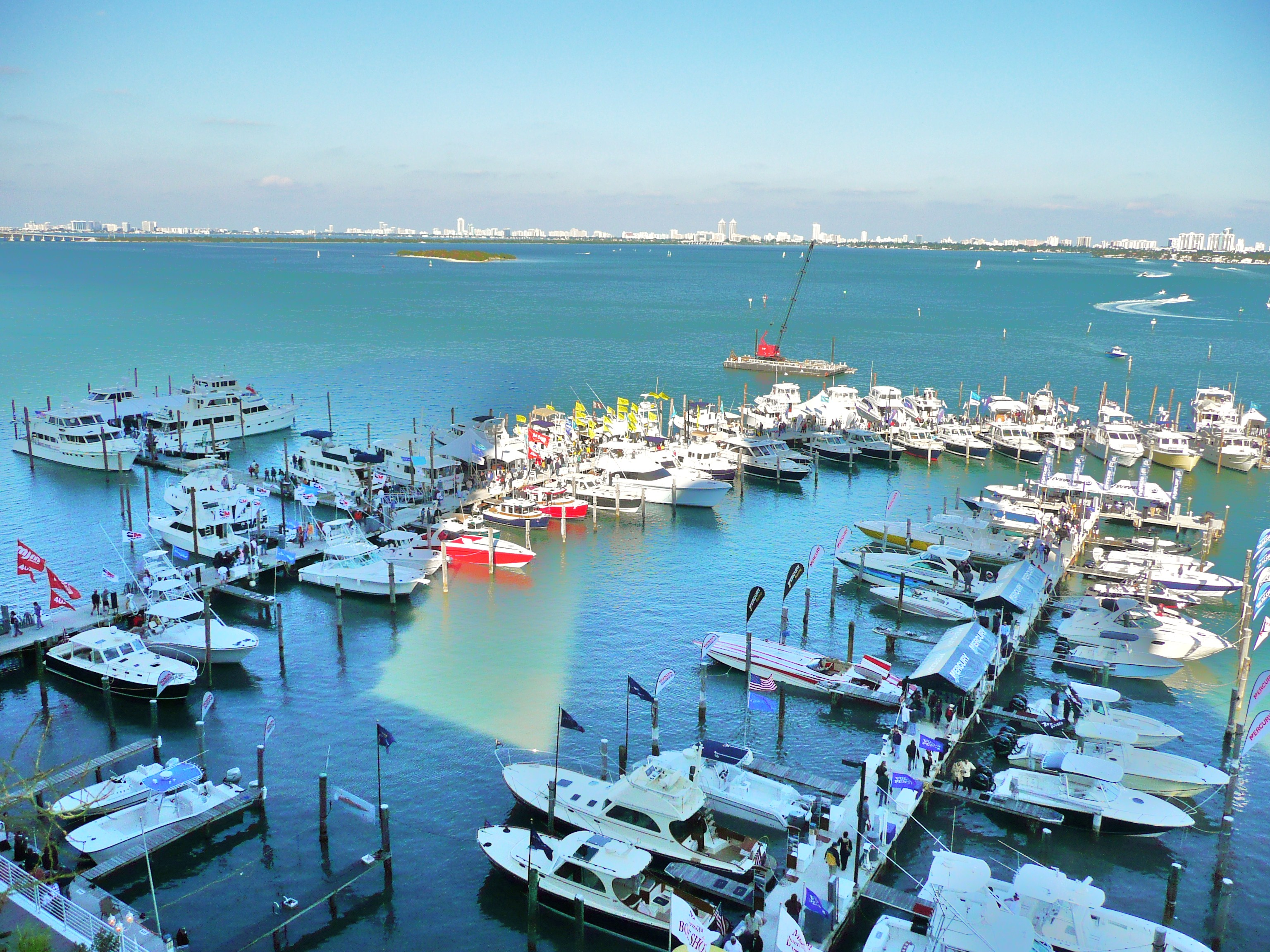 Digital photo taken by Marc Averette. The Sea Isle Marina in Downtown Miami, Florida, United States.